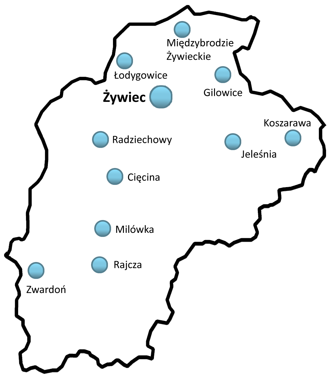 Żywiec country (Poland), 1921-1932